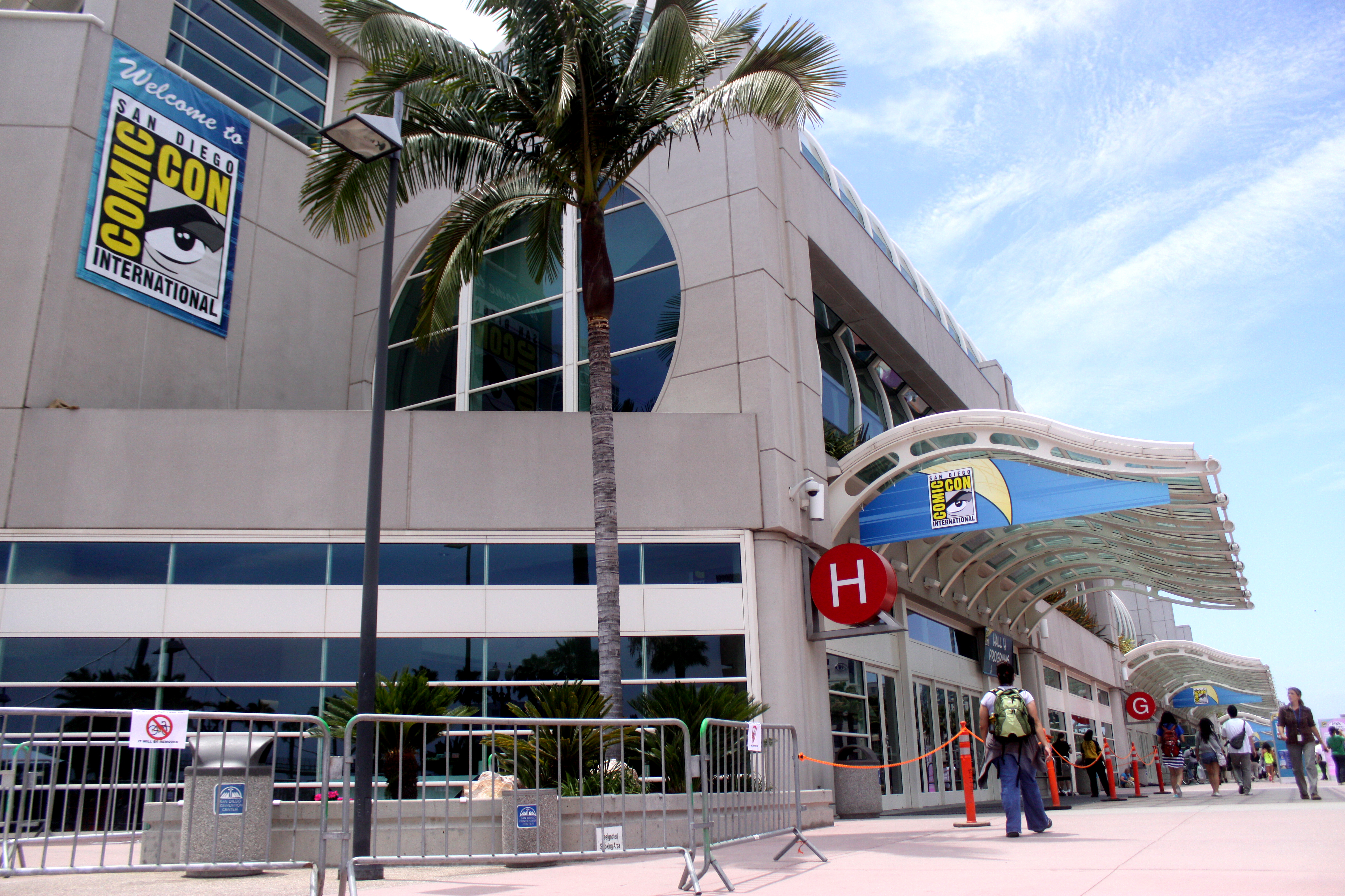 The San Diego Convention Center during Comic-Con 2012 in San Diego, California.